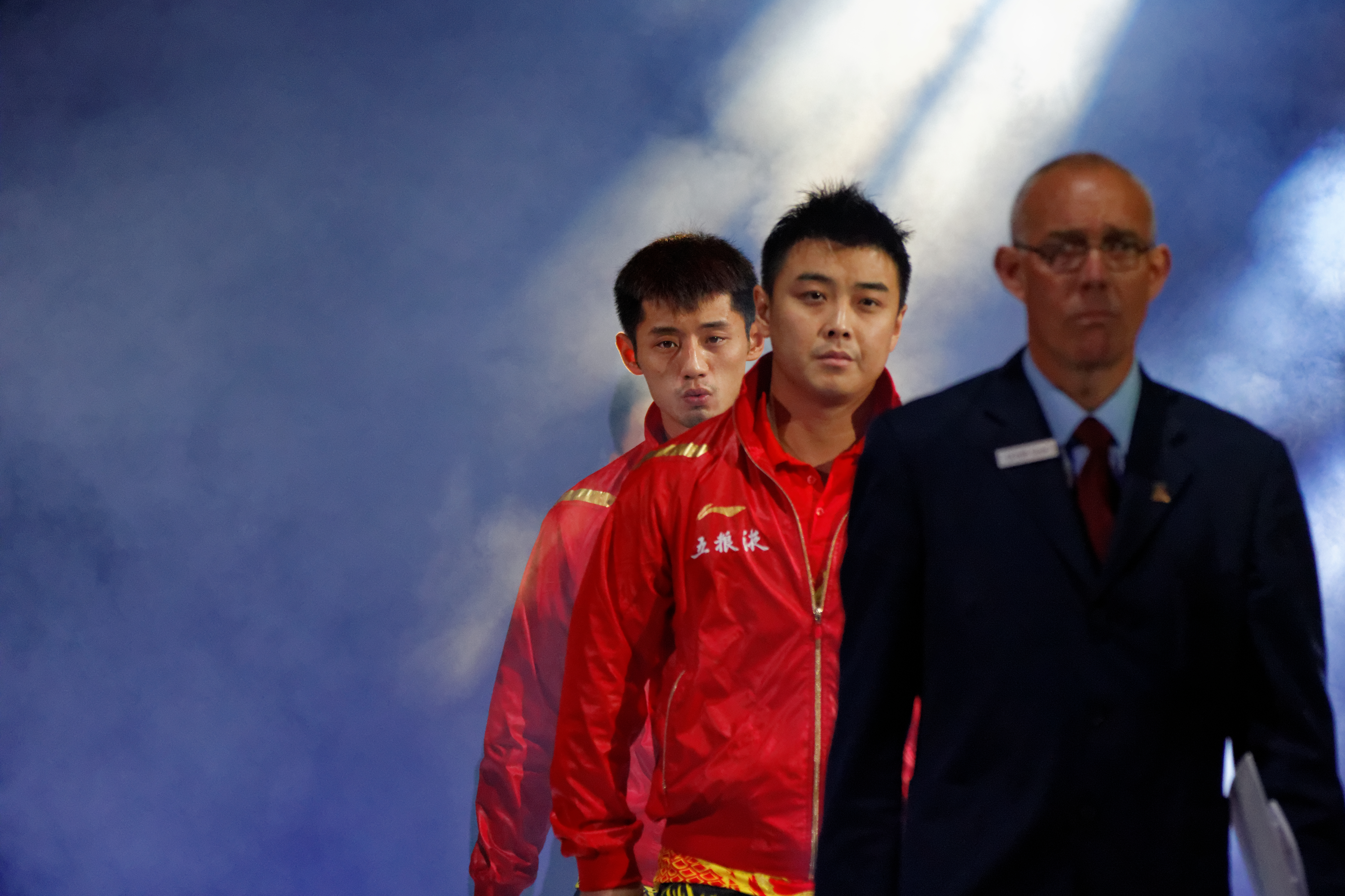 2013 World Table Tennis Championships, Men's Singles Final: Zhang Jike vs Wang Hao